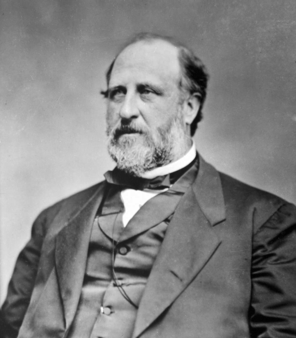 Portrait of William Magear "Boss" Tweed.